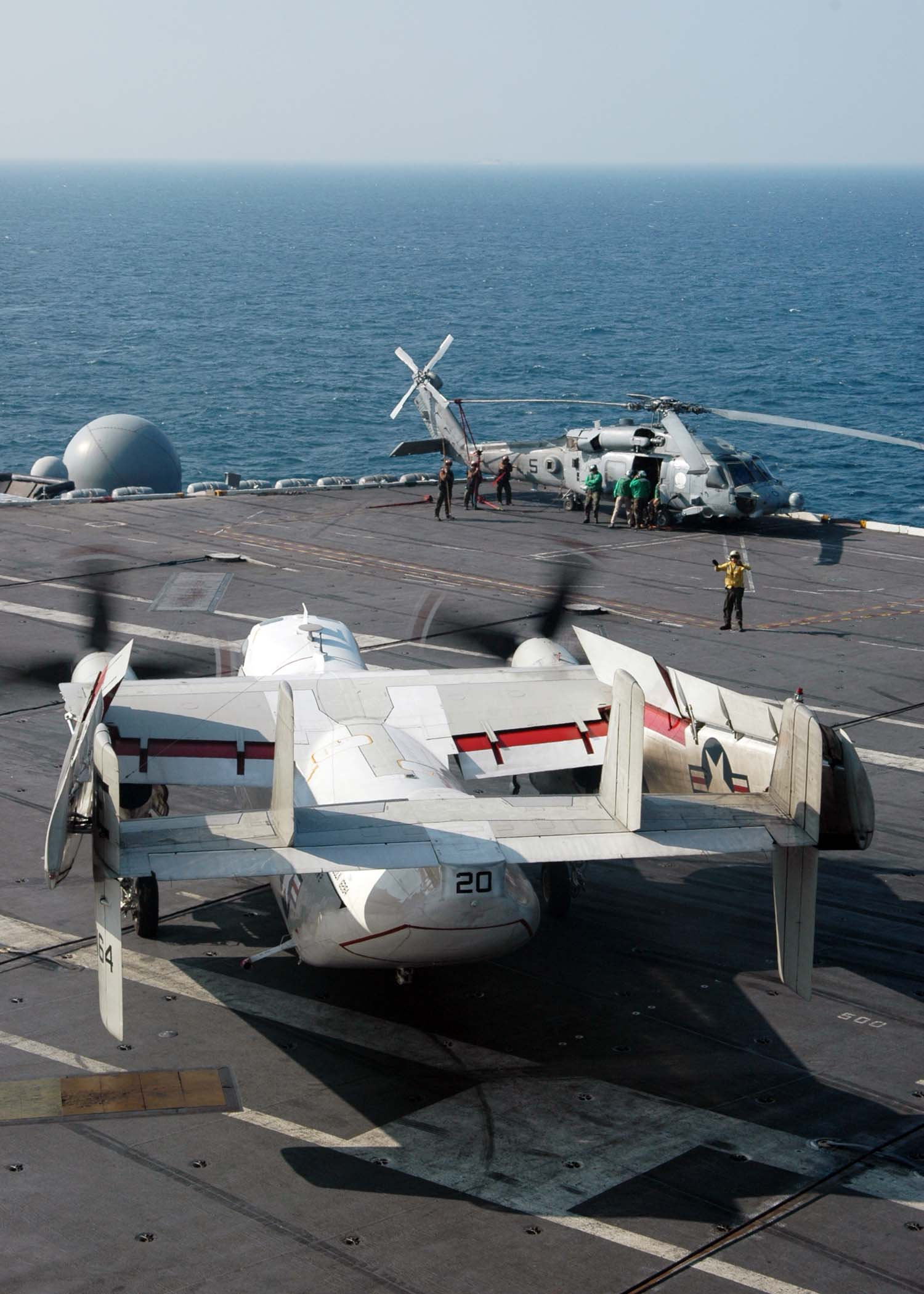 A C-2A Greyhound from Fleet Logistics Support Squadron Three Zero (VRC-30) prepares to launch off the flight deck of the USS Abraham Lincoln (CVN-72). Aircraft assigned to Carrier Air Wing Two (CVW-2) and Sailors from the Abraham Lincoln are supporting Operation Unified Assistance, the humanitarian operation effort in the wake of the Tsunami that struck South East Asia. The Abraham Carrier Strike group is currently operating in the Indian Ocean off the waters of Indonesia and Thailand.